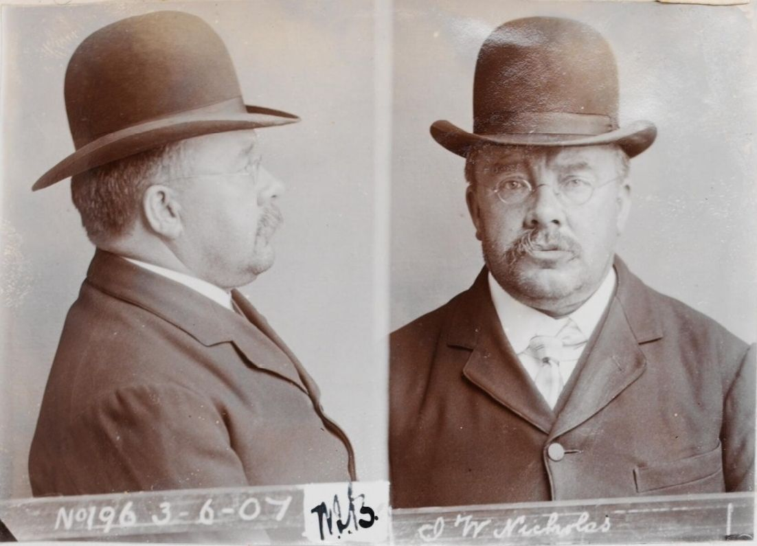 Photograph from a register of Cardiganshire criminals, 1897-1933. W Nicholas.